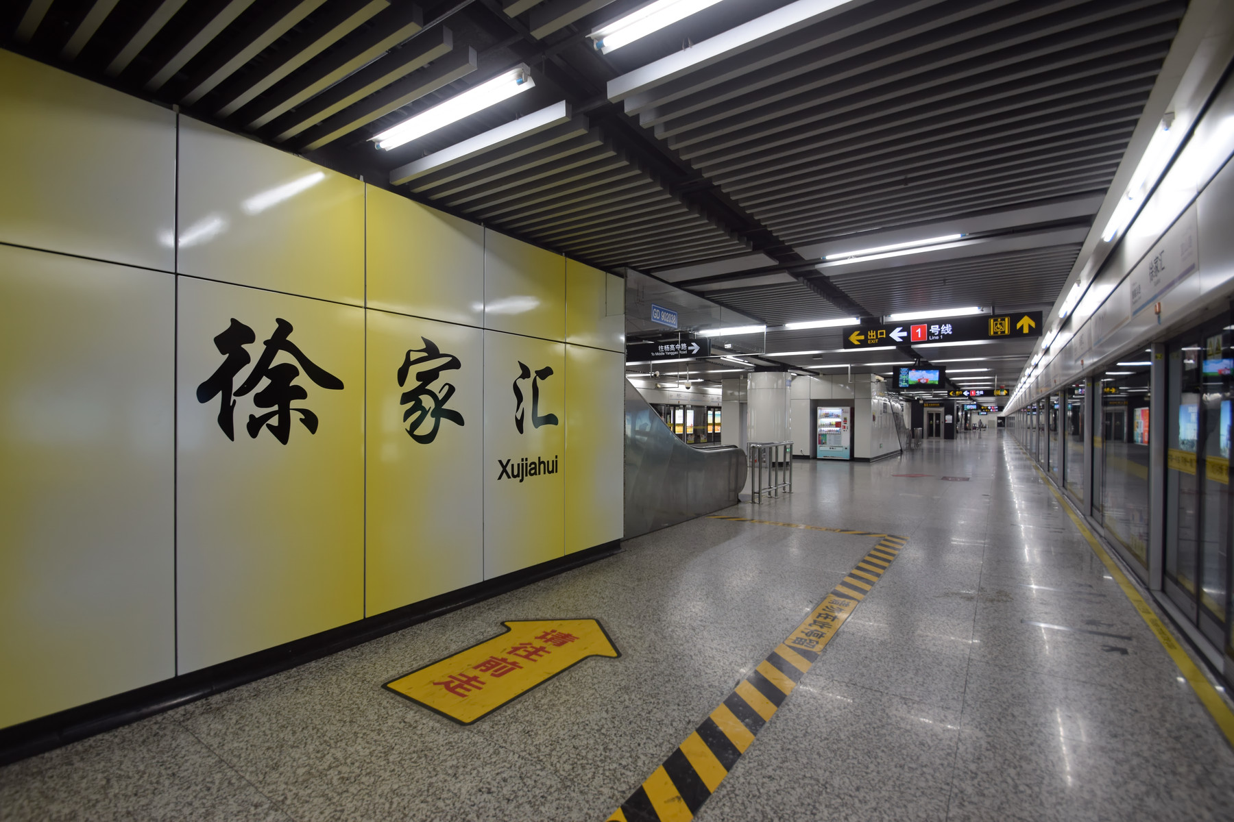 Line 9 Platform of Xujiahui Station, Shanghai Metro